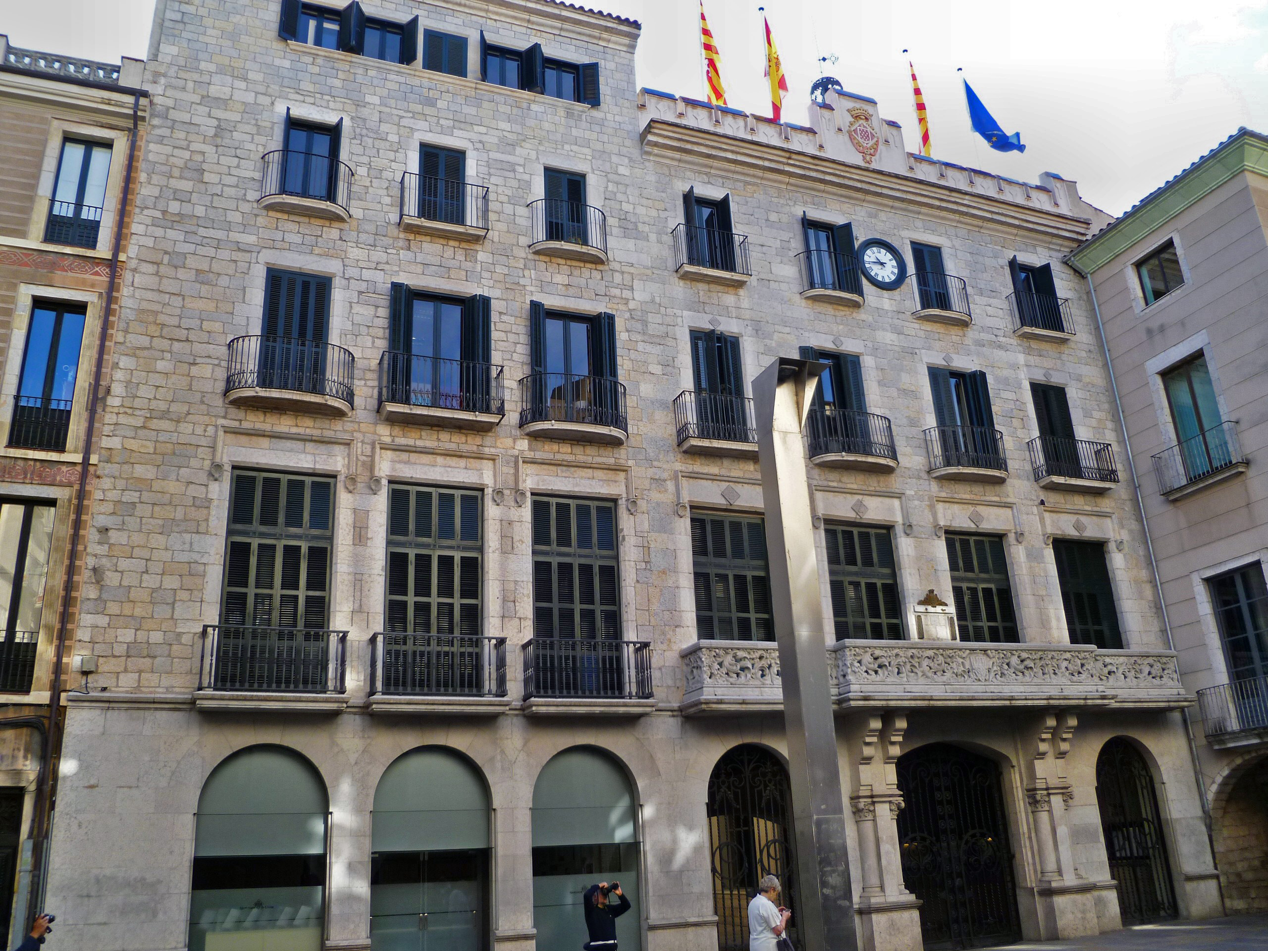 City Hall, Girona, Spain